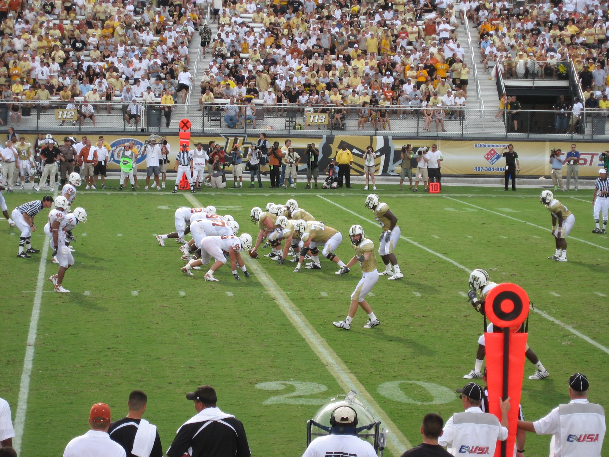 UCF Knights on offense against the Texas Longhorns - 2007 - opening day for Bright House Networks Stadium